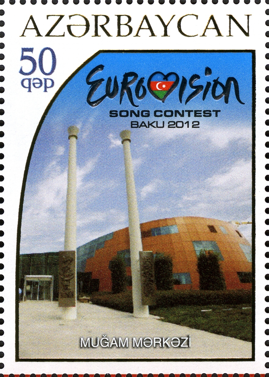 "Eurovision - 2012" song contest